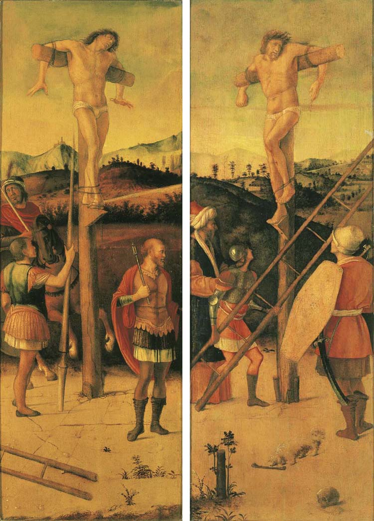 The Two Crucified Thieves